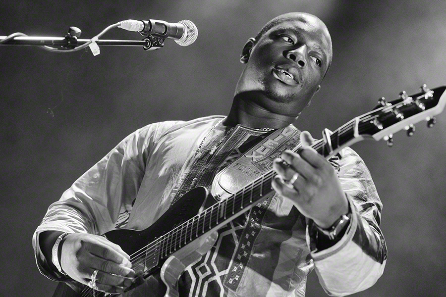 Vieux Farka Touré performs at Cosmopolite Scene in Oslo on 09.03.2016. “The Hendrix of the Sahara” visited Oslo for the Frankofoni festival.Lineup:Vieux Farka Touré (vocal and guitar)Jean-Paul Melindji (drums)Valery Assouan (bass)